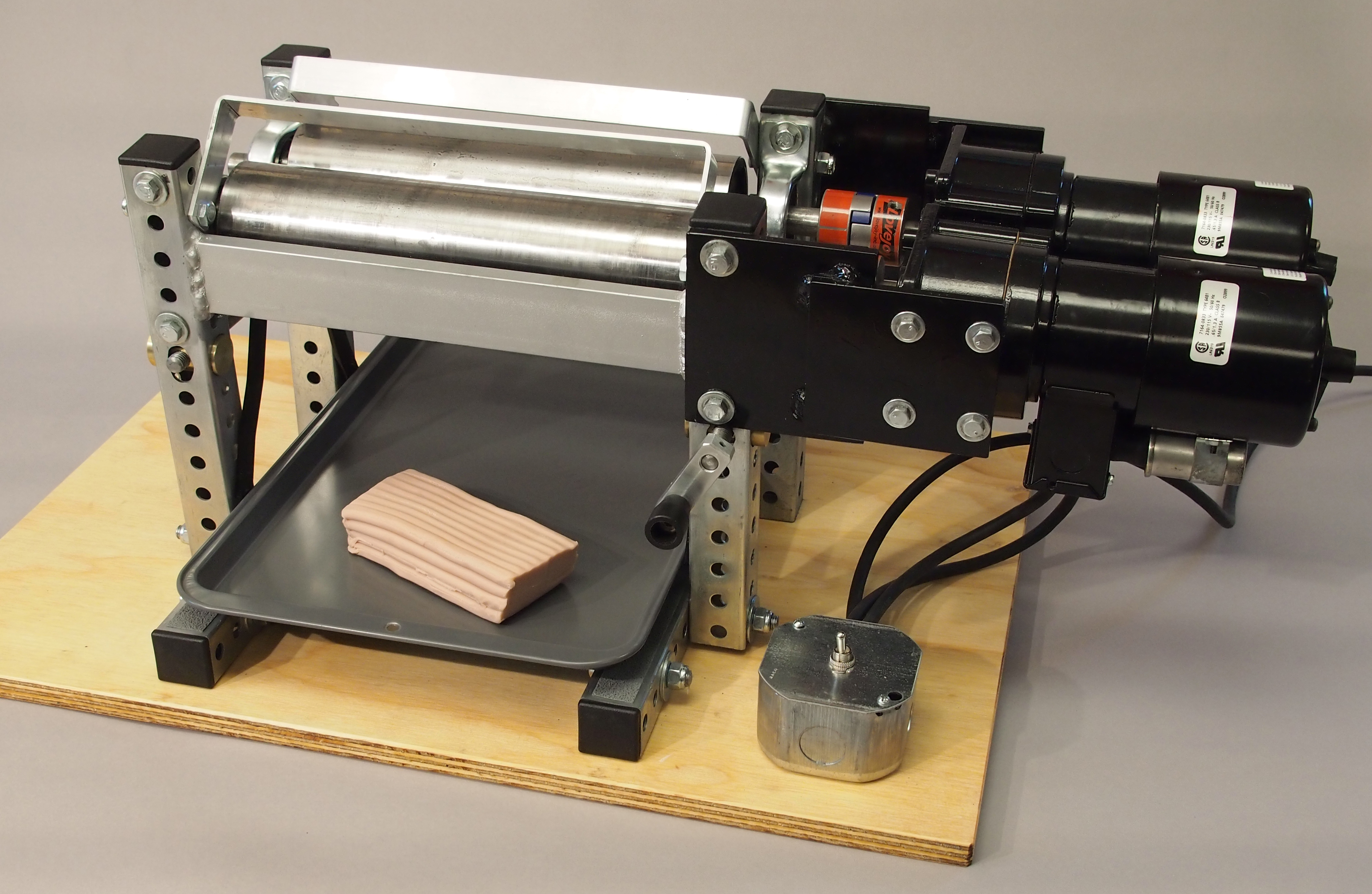 Custom-built clay conditioner for industrial use at Clay Critters, West Lafayette, Indiana, USA. Rolls are 3.5" diameter by 12" long. 1/8 horsepower. Shown with one pound block of polymer clay.